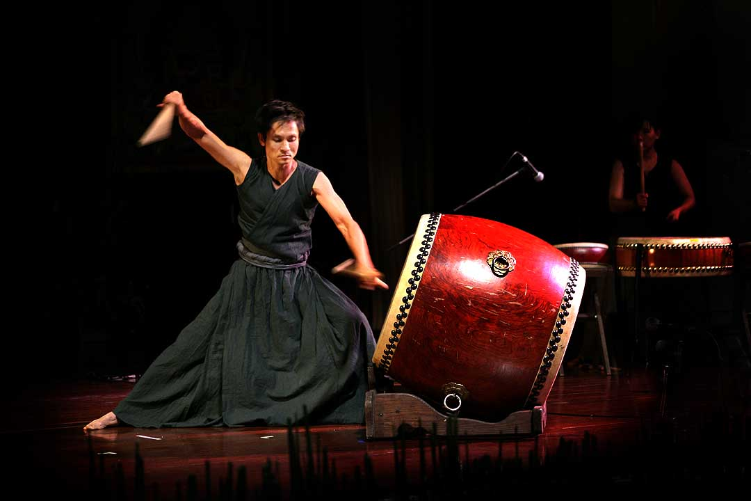 A Taiwanese taiko drummer.